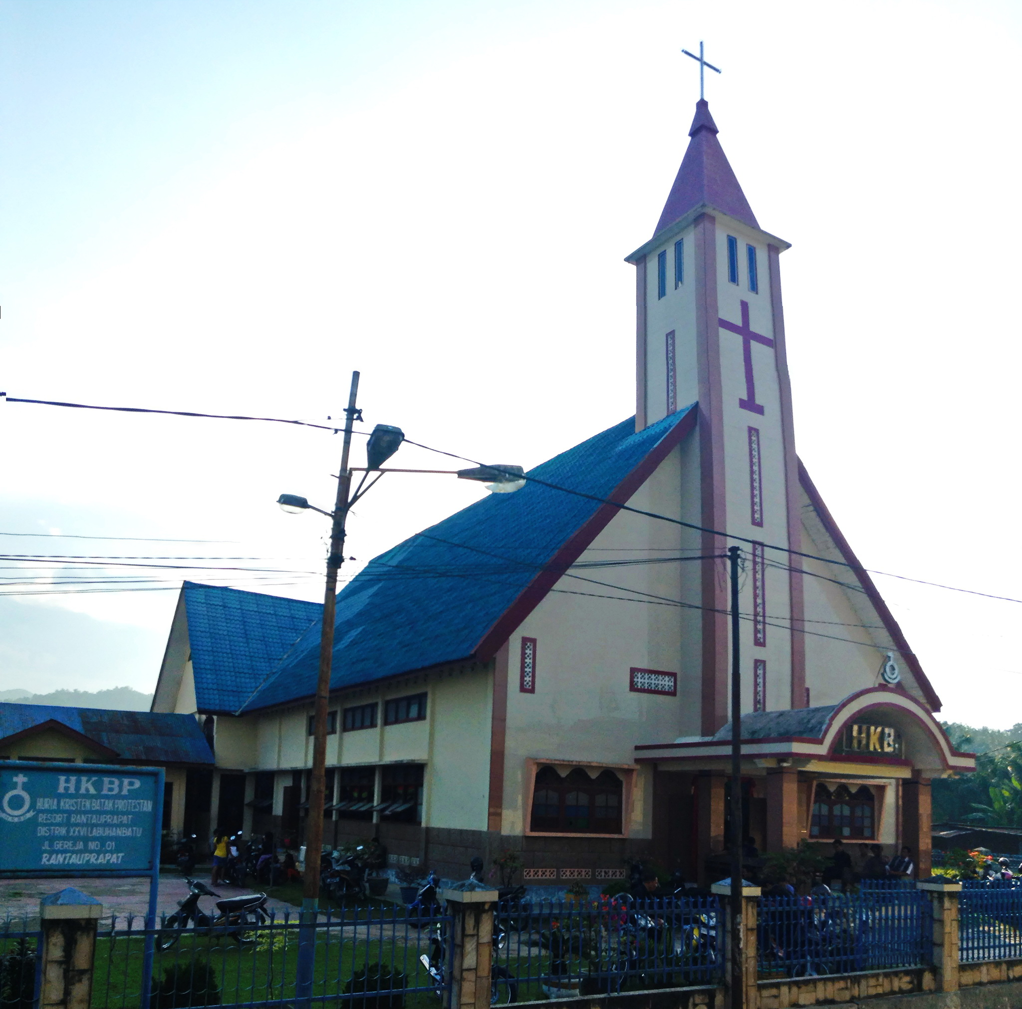 HKBP Rantauprapat, Church in Rantauprapat, Labuhanbatu